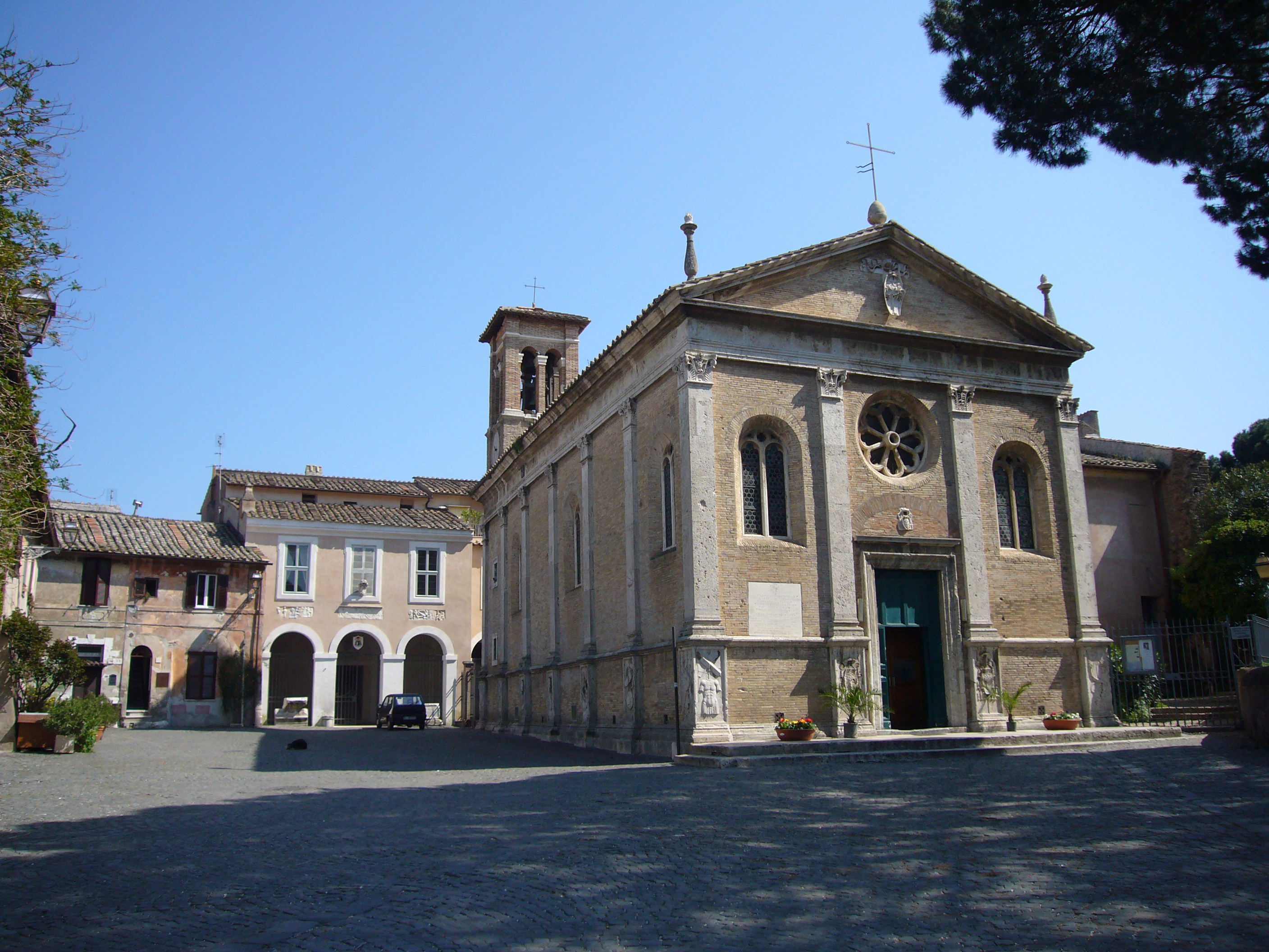 Church of Santa Aurea, Ostia Antica, Rome.